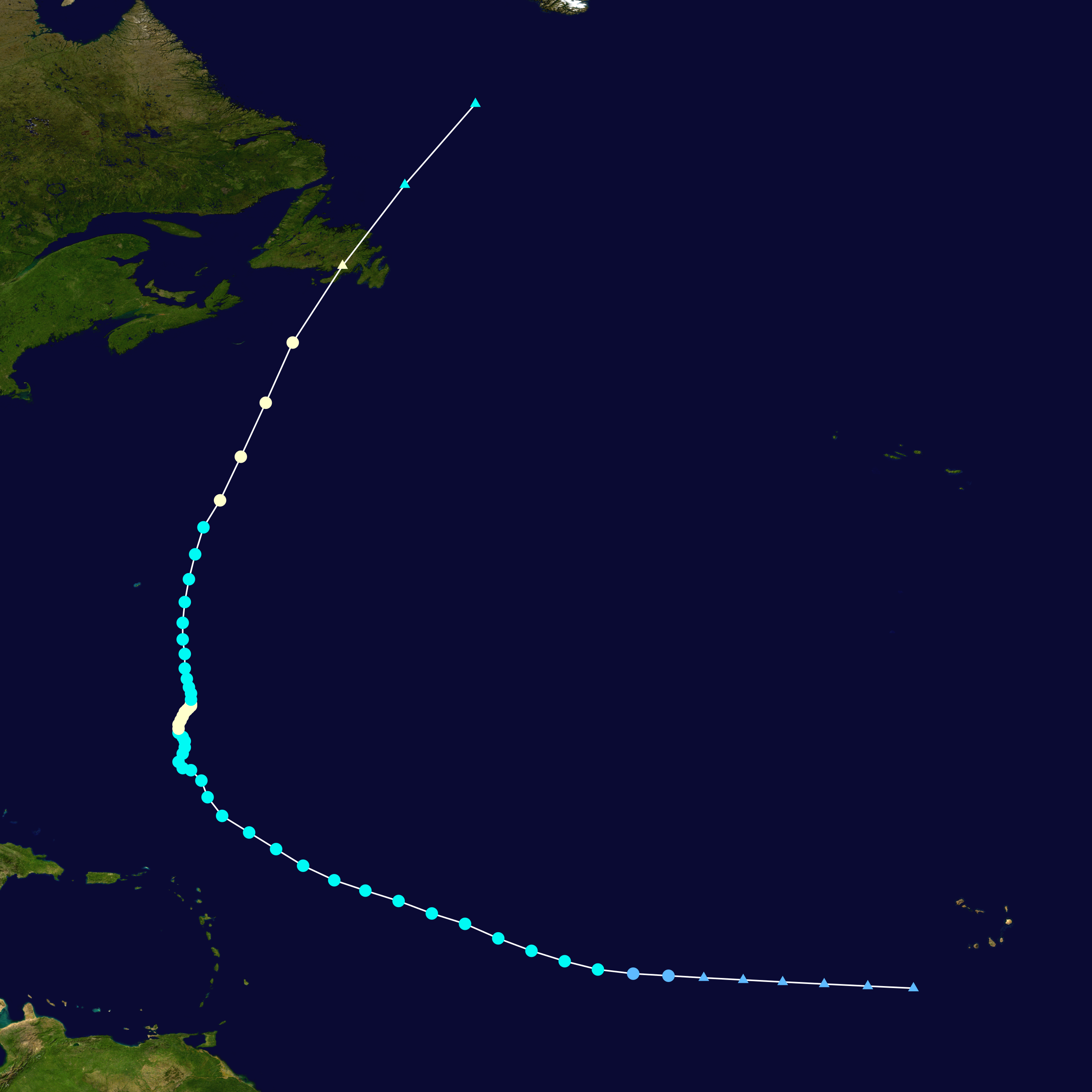 Track map of Hurricane Leslie of the 2012 Atlantic hurricane season. The points show the location of the storm at 6-hour intervals. The colour represents the storm's maximum sustained wind speeds as classified in the Saffir–Simpson scale (see below), and the shape of the data points represent the nature of the storm, according to the legend below. Saffir–Simpson scale Tropical depression≤38 mph≤62 km/h Category 3111–129 mph178–208 km/h Tropical storm39–73 mph63–118 km/h Category 4130–156 mph209–251 km/h Category 174–95 mph119–153 km/h Category 5≥157 mph≥252 km/h Category 296–110 mph154–177 km/h Unknown Storm type Tropical cyclone Subtropical cyclone Extratropical cyclone / Remnant low / Tropical disturbance / Monsoon depression